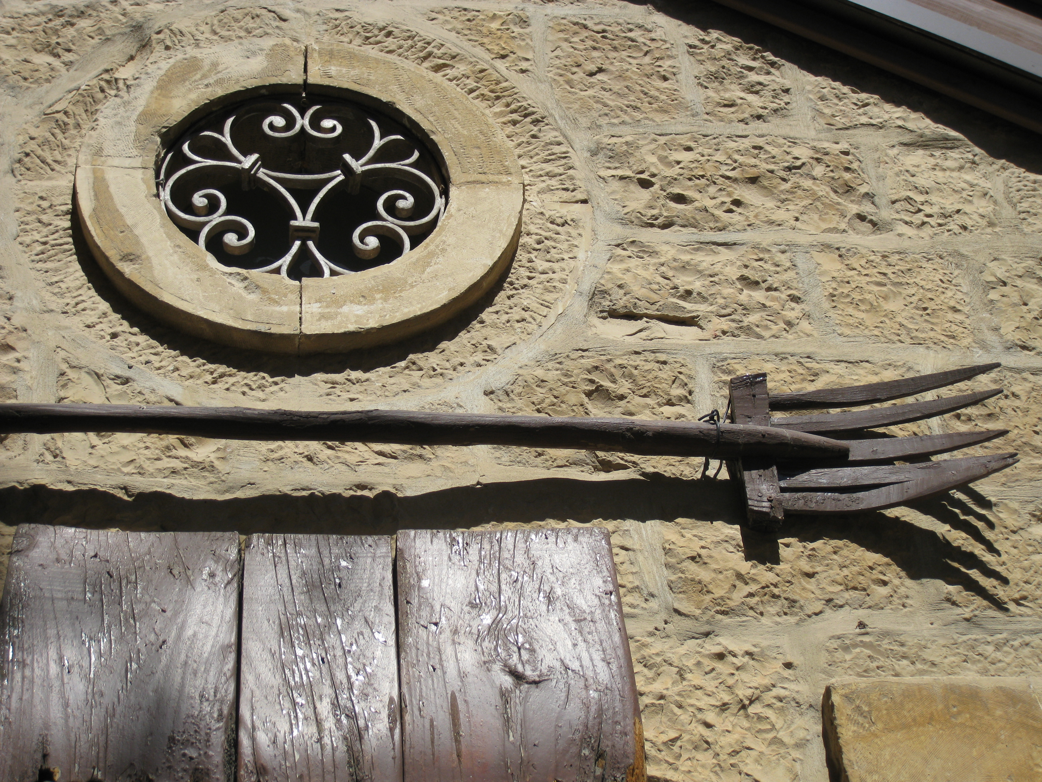 Sergei's Court A Winnowing Fork (A Pitchfork) חצר סרגי קלשון